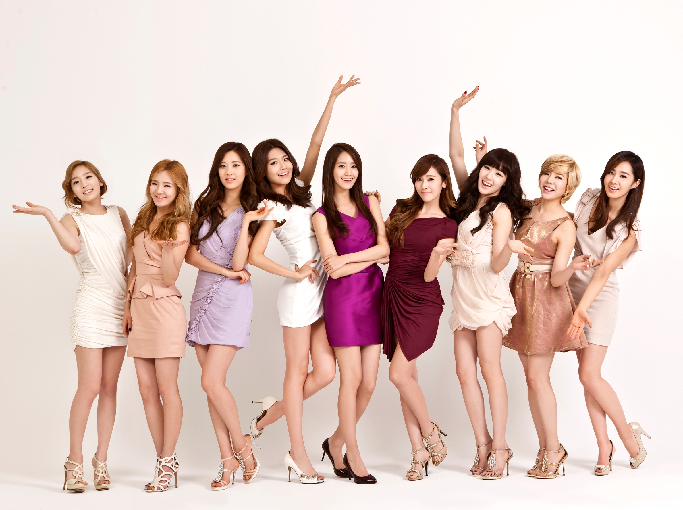 South Korean pop group Girls' Generation (SoShi or SNSD) modelling for LG Cinema 3D TV. Left to right: Kim Tae-yeon, Kim Hyo-yeon, Seo Joo-hyun, Choi Soo-young, Im Yoona, Jessica Jung, Tiffany Hwang, Sunny Lee, Kwon Yuri